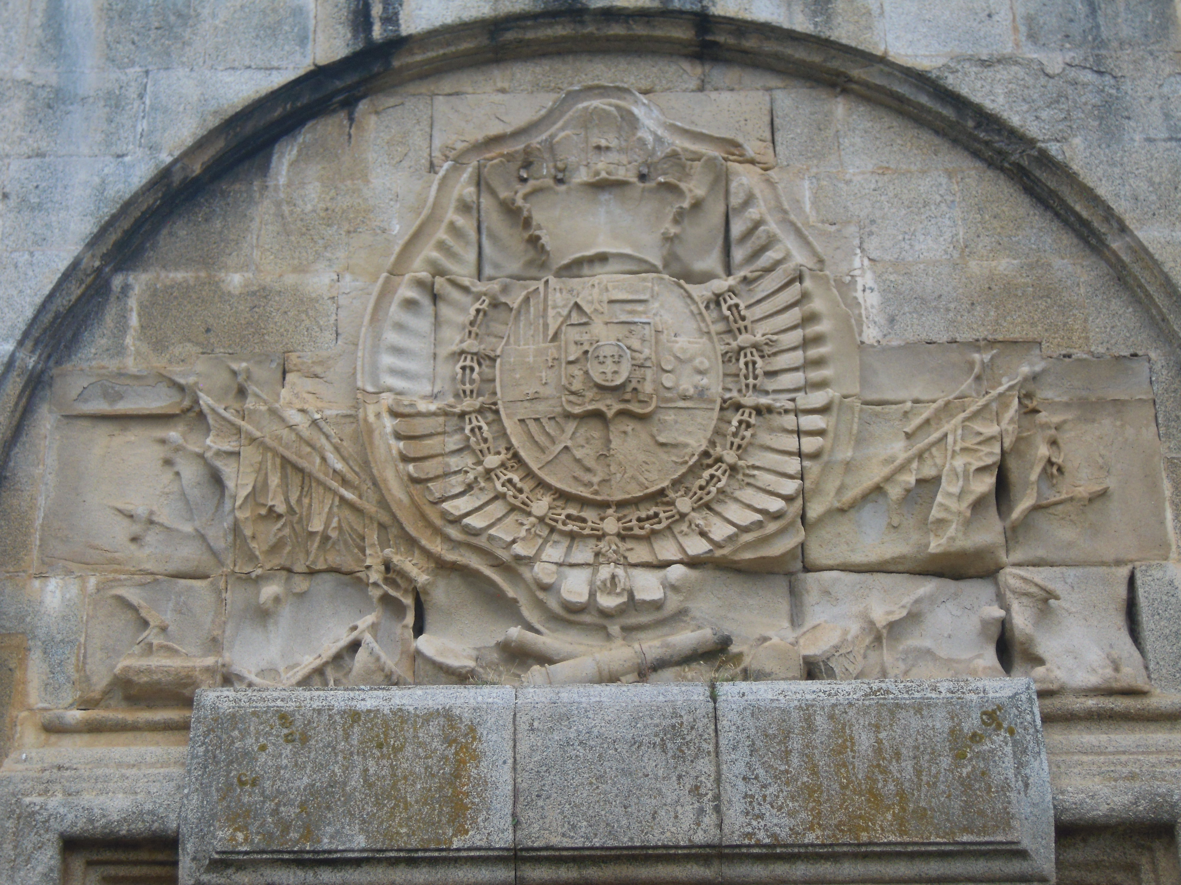 Carved stone coat of arms above the main gate of the Royal Fortress of the Concepcion. The fort is located west of the village of Aldea del Obispo, Province of Salamanca, Spain.